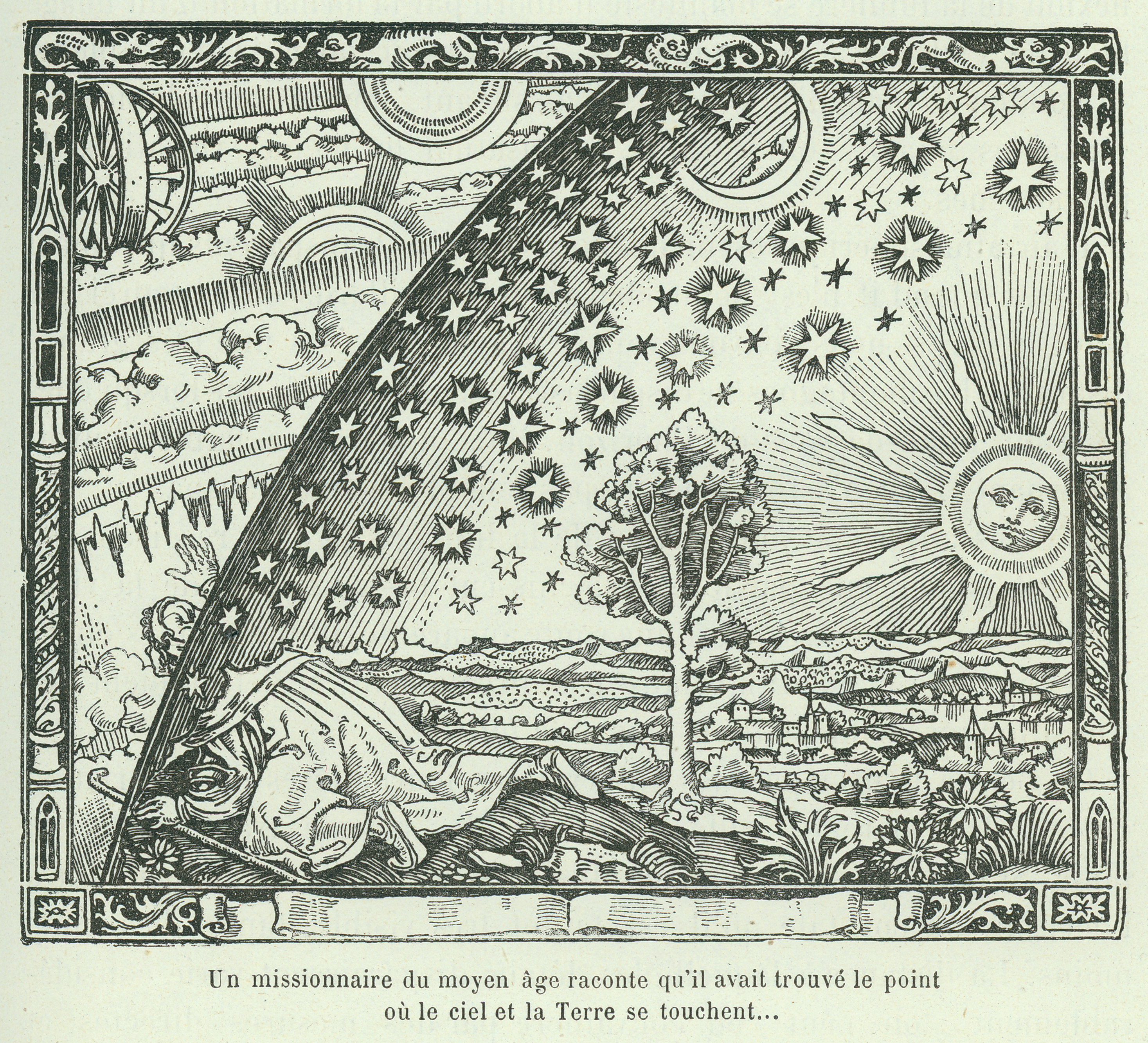 The Flammarion engraving is a wood engraving by an unknown artist that first appeared in Camille Flammarion's L'atmosphère: météorologie populaire (1888). The image depicts a man crawling under the edge of the sky, depicted as if it were a solid hemisphere, to look at the mysterious Empyrean beyond. The caption translates to "A medieval missionary tells that he has found the point where heaven and Earth meet..."